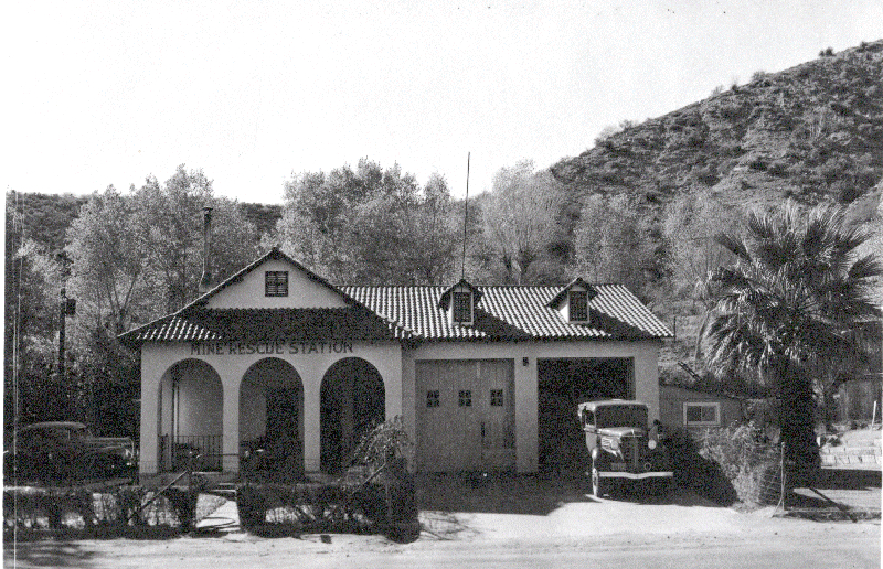 The Globe Miami Mine Rescue Station is shown, with a truck in the Station’s open garage and a car parked nearby. The Mine Rescue Station was built and equipped by the Globe-Miami District Mine Rescue and First Aid Association, a cooperative association organized by mine operators in the Globe-Miami district, Gila County, Arizona. The Station supported rescue efforts for the Old Dominion Mine, which operated from 1914 into the 1960s. The Station building was later turned into a local museum.